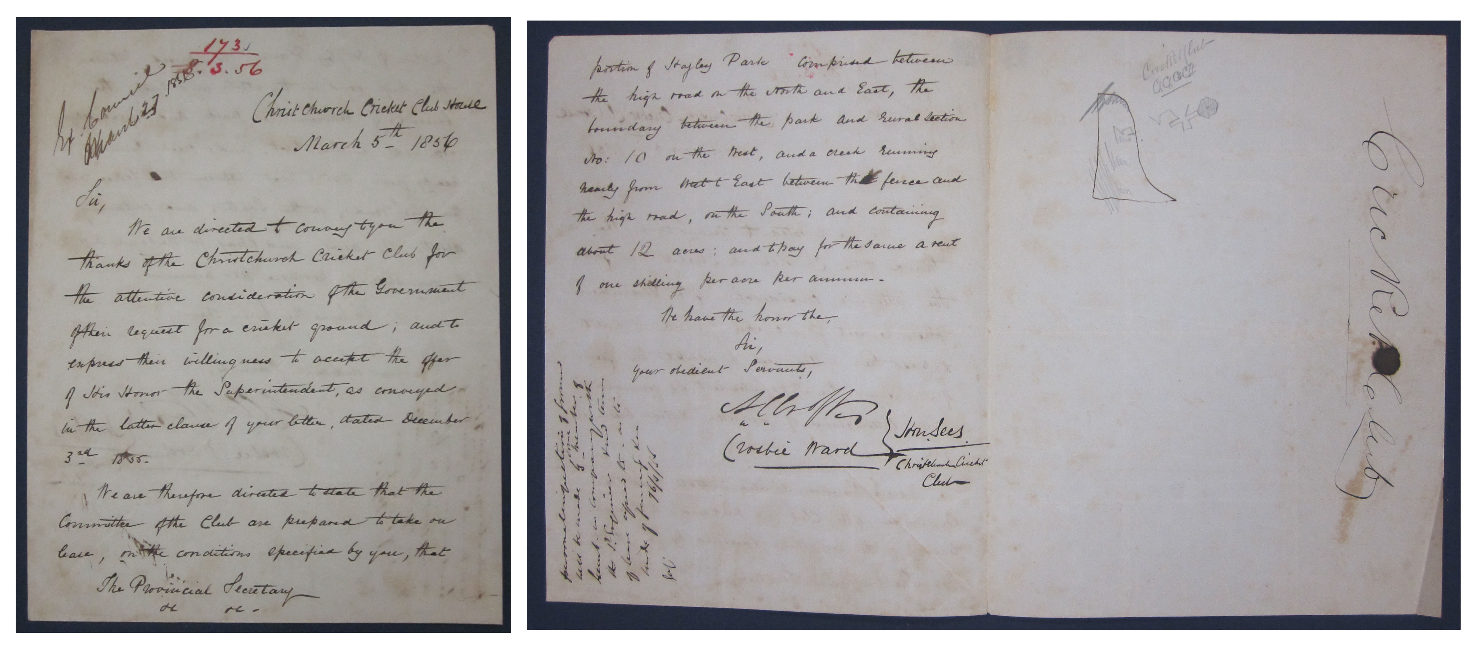 On March 5 1856, Crosbie Ward, an elected member of the Canterbury Provincial Council and member of Christchurch Cricket Club, accepted the offer of a lease of land within Hagley Park to be used as a cricket pitch. A request was made in November 1855 to the Canterbury Provincial Government and in return an offer of a lease of land was made. Christchurch Cricket Club had in any case been based at Hagley Park since 1851 (though it wasn’t until the 1860s that their ground was located on the actual Hagley Oval site – as it stands today). This link from Papers Past records the first meeting of Christchurch Cricket Club in 1851 The record presented here is from the Christchurch Office of Archives New Zealand in a series of inwards correspondence received by the Provincial Secretary. The Provincial Secretary was the most important civil servant of the Provincial Government, and his office was its hub. His inwards correspondence is a large series, and it covered all possible facets of the Provincial Government's activities - immigration, education, charitable aid, health, public works (until 1864), goldfields, justice and so on. For further enquiries please Reference: CAAR 19936 CH287 CP8 ICPS 173/1856 Throughout the Cricket World Cup 2015, Archives New Zealand will be highlighting a selection of cricket related records which are found in our holdings. For further updates on our cricket posts and other streams follow us on Twitter Material from Archives New Zealand